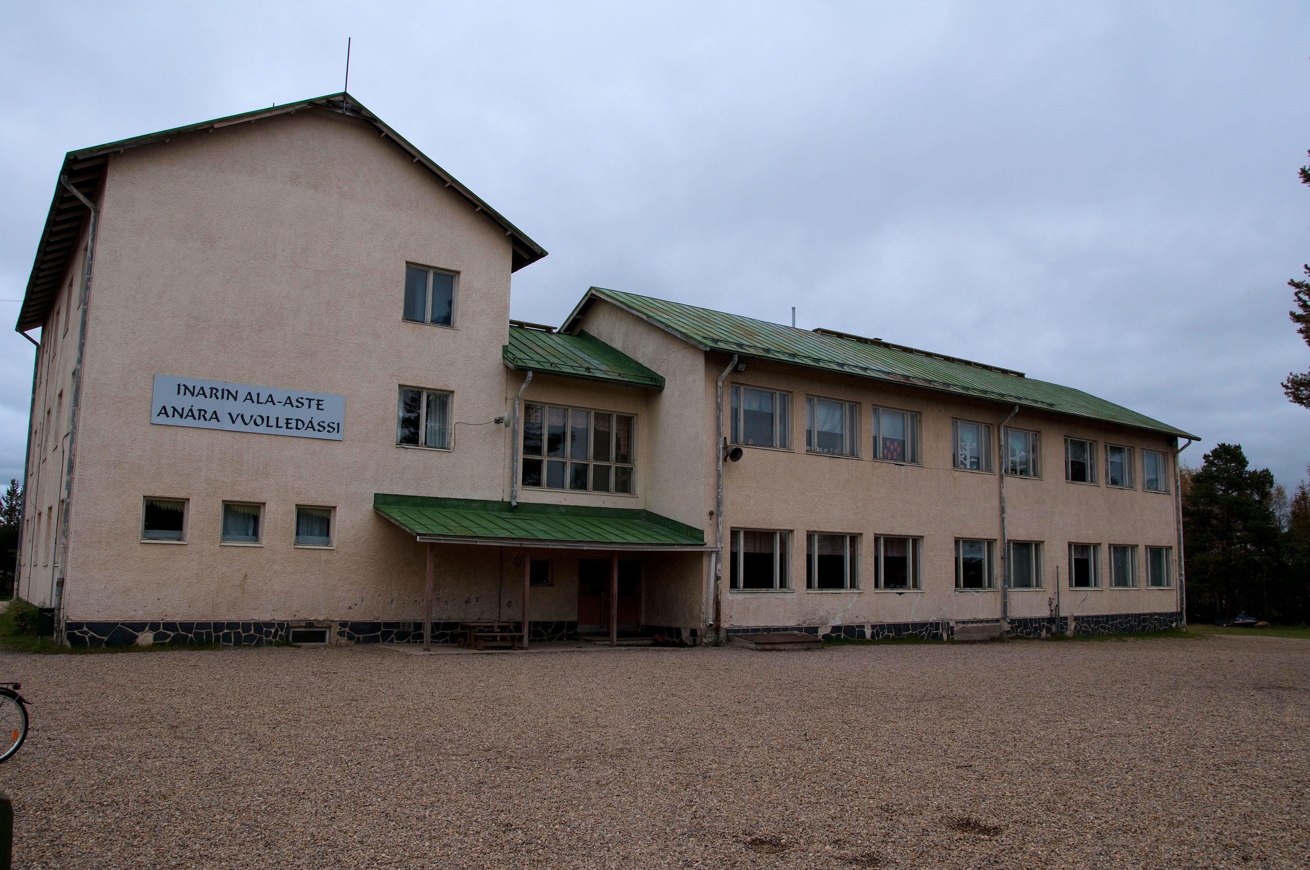 Inari school in Inari